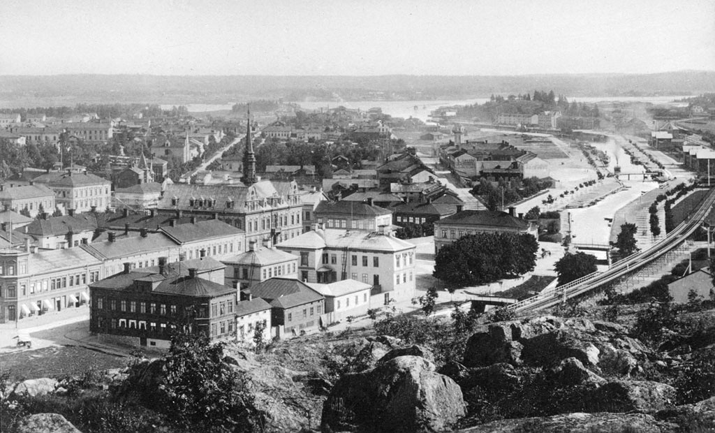 View over Söderhamn. In middle of the picture is the Town Hall with the spire.